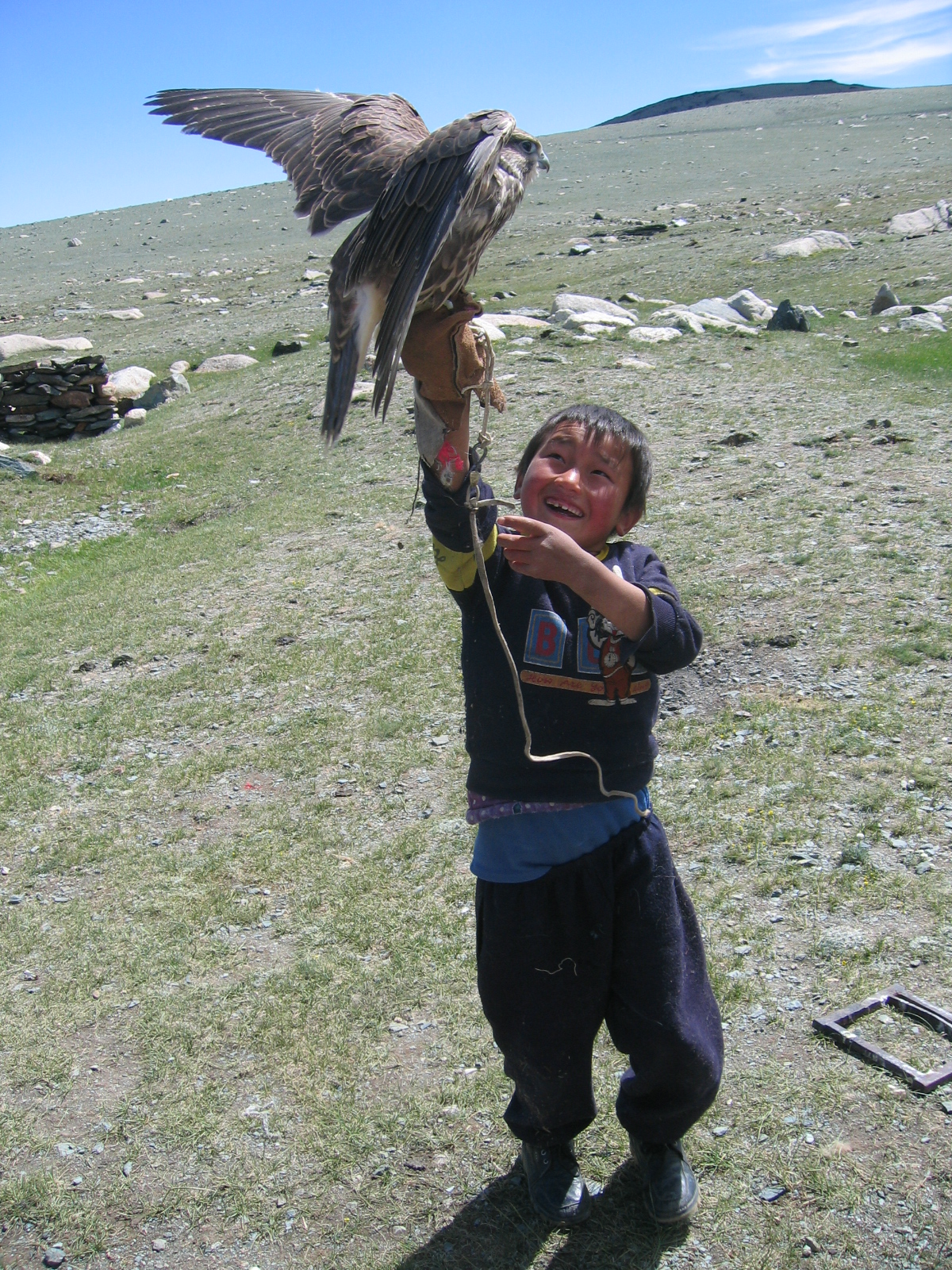 In western mongolia, a child with a saker falcon.